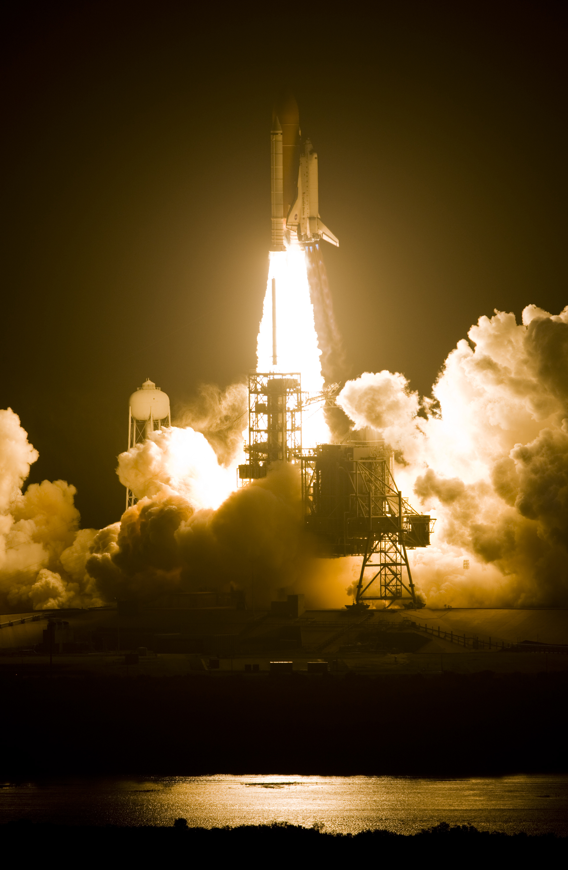 CAPE CANAVERAL, Fla. – From Launch Pad 39A at NASA's Kennedy Space Center, space shuttle Endeavour roars into space atop twin columns of fire, lighting the night sky, Liftoff of Endeavour on the STS-126 mission was on time at 7:55 p.m. EST. STS-126 is the 124th space shuttle flight and the 27th flight to the International Space Station. The mission will feature four spacewalks and work that will prepare the space station to house six crew members for long-duration missions.